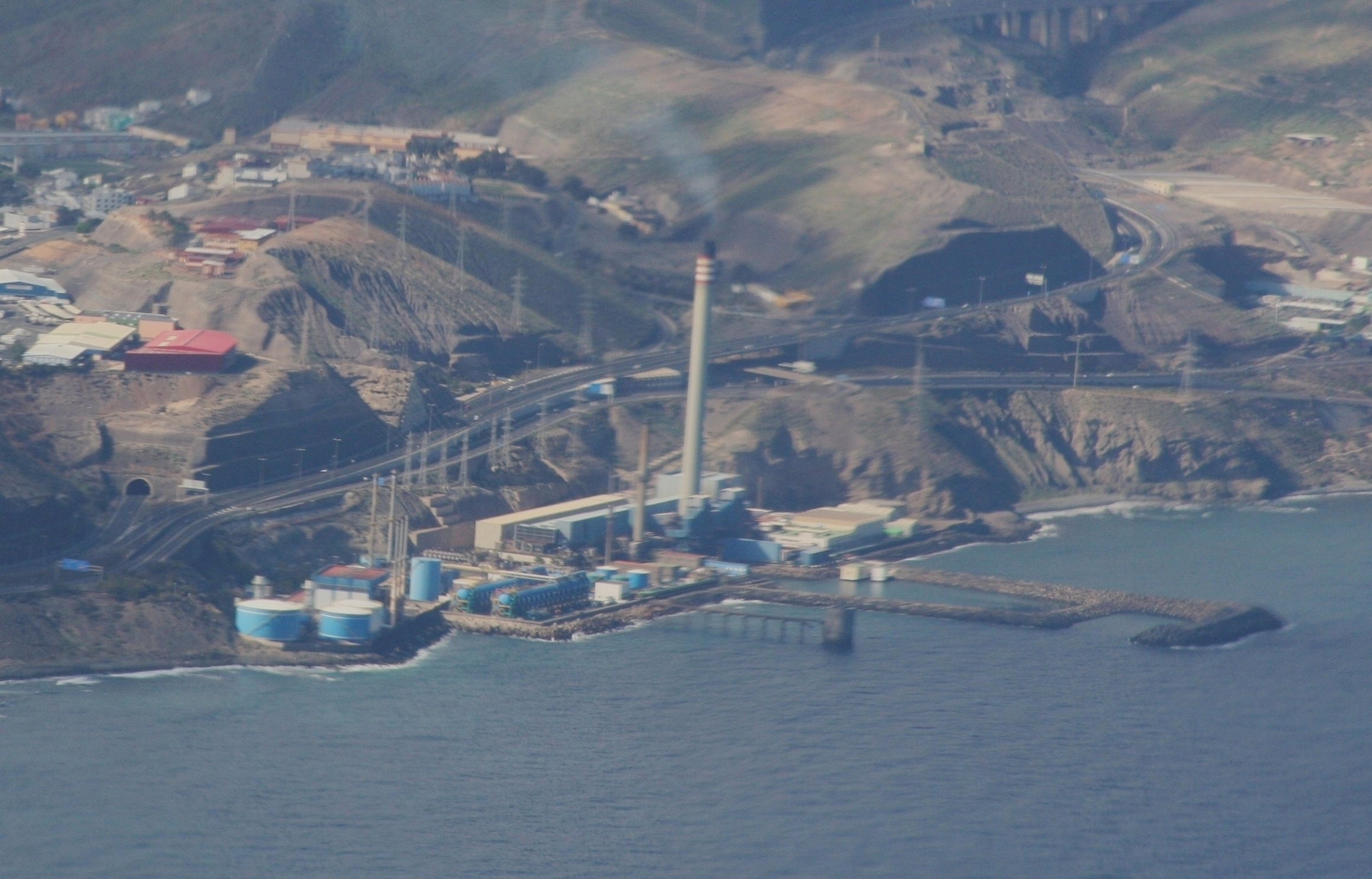 Jinámar power plant, south of Las Palmas de Gran Canaria, Spain. It has 2 x 25 MW diesel oil turbines. Built in 1992.